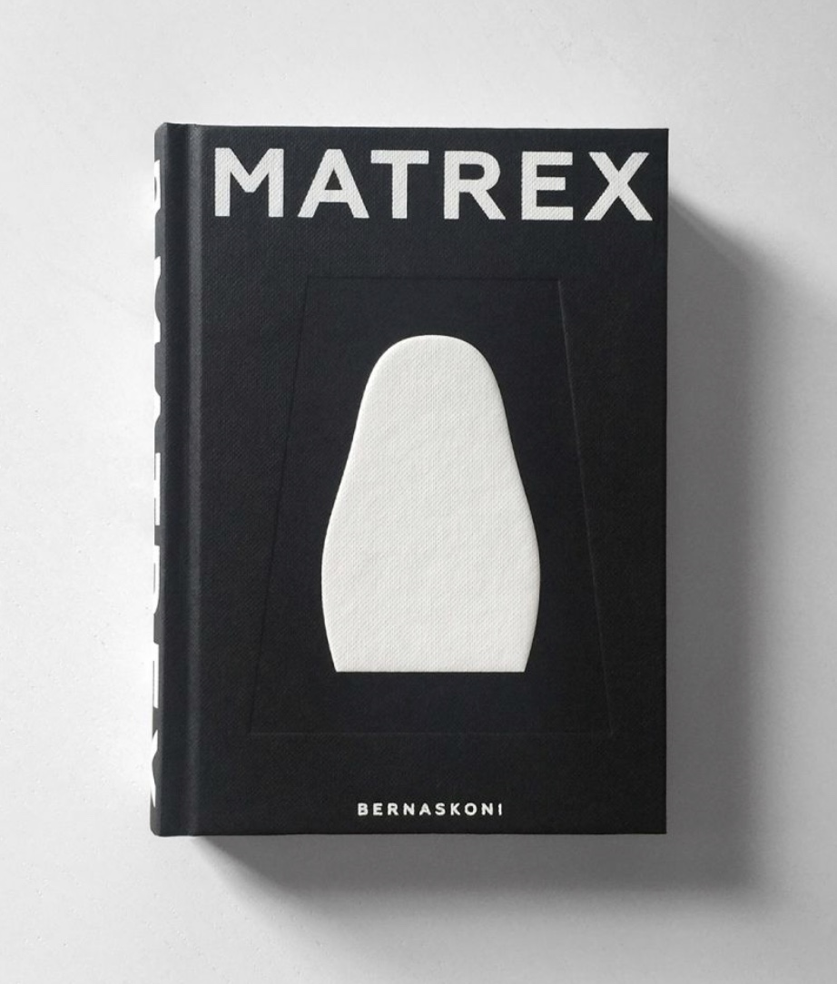 A book on the MATREX project by Russian architect Boris Bernaskoni, about the innovative MATREX building at the Skolkovo Innovation Centre, Moscow, Russia.